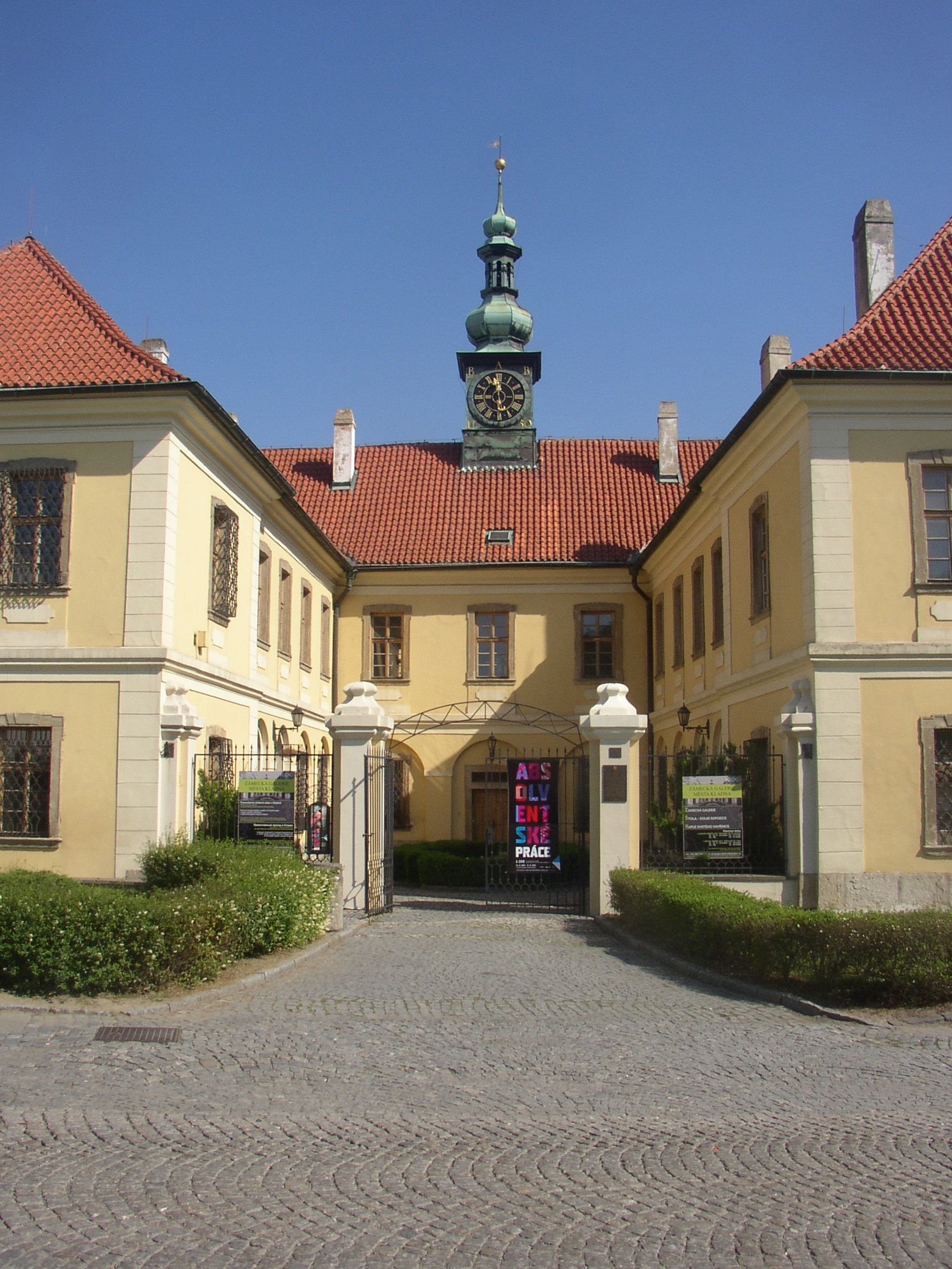 Chateau in Kladno, Central bohemian Region, Czech Republic. Front view with courtyard gate. Originally a Renaissance chateau which replaced an older Gothic fort. Its current shape dates from early 18th century, when it was rebuilt in Baroque style by Kilián Ignác Dientzenhofer for abbots of Břevnov-Broumov Monastery. The interiors contain St. Lawrence Chapel with rich bBaroque decoration. Nowadays the chateau houses an art gallery and city library.